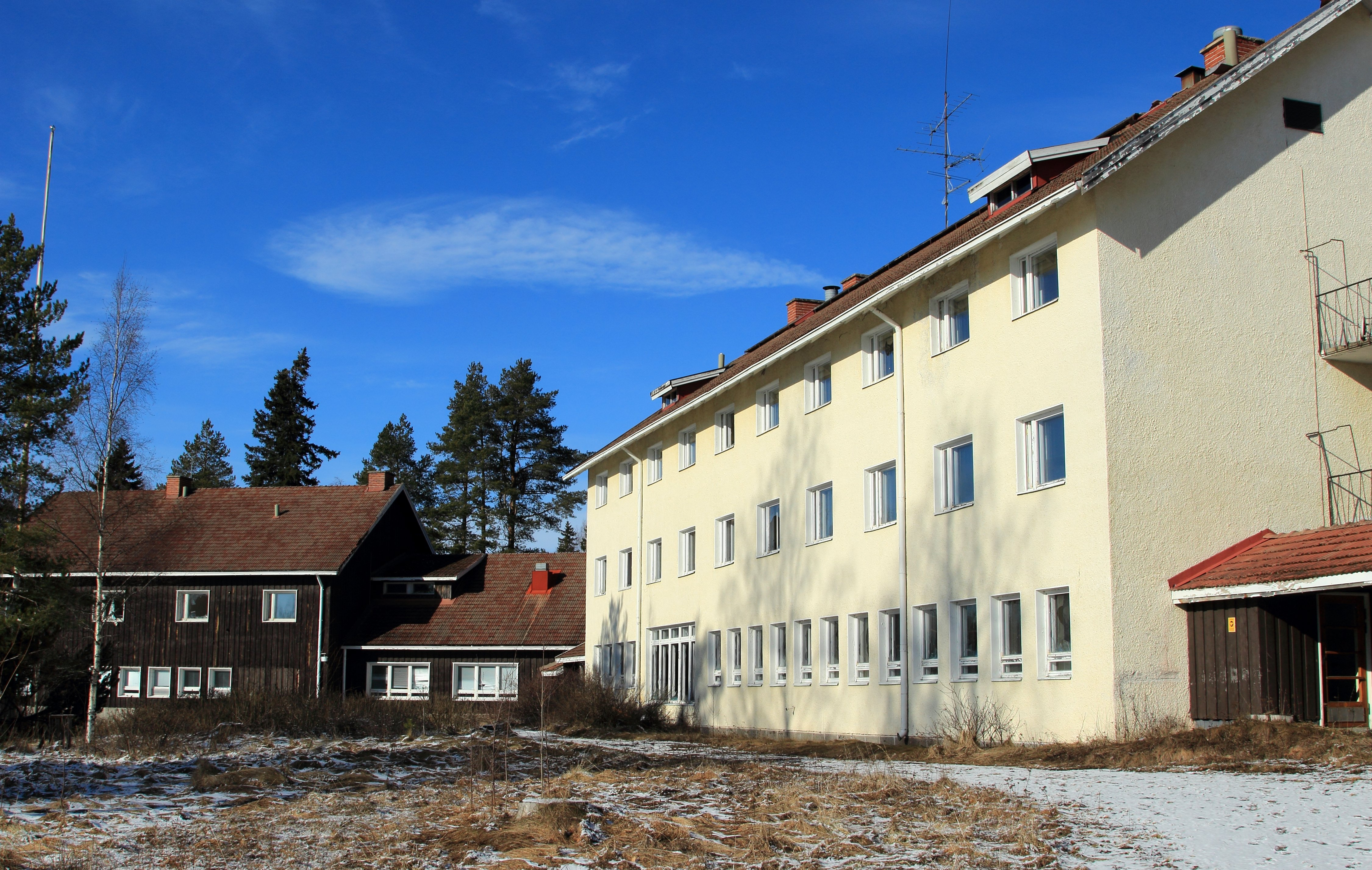 The Pohjolan opisto was a vocational college in Haukipudas. Buildings have been abandoned.